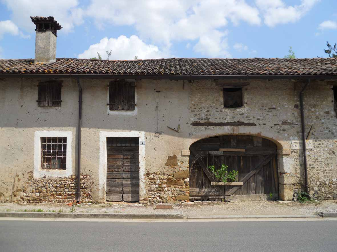 S.Maria_la_Longa,_casa_Volpetti